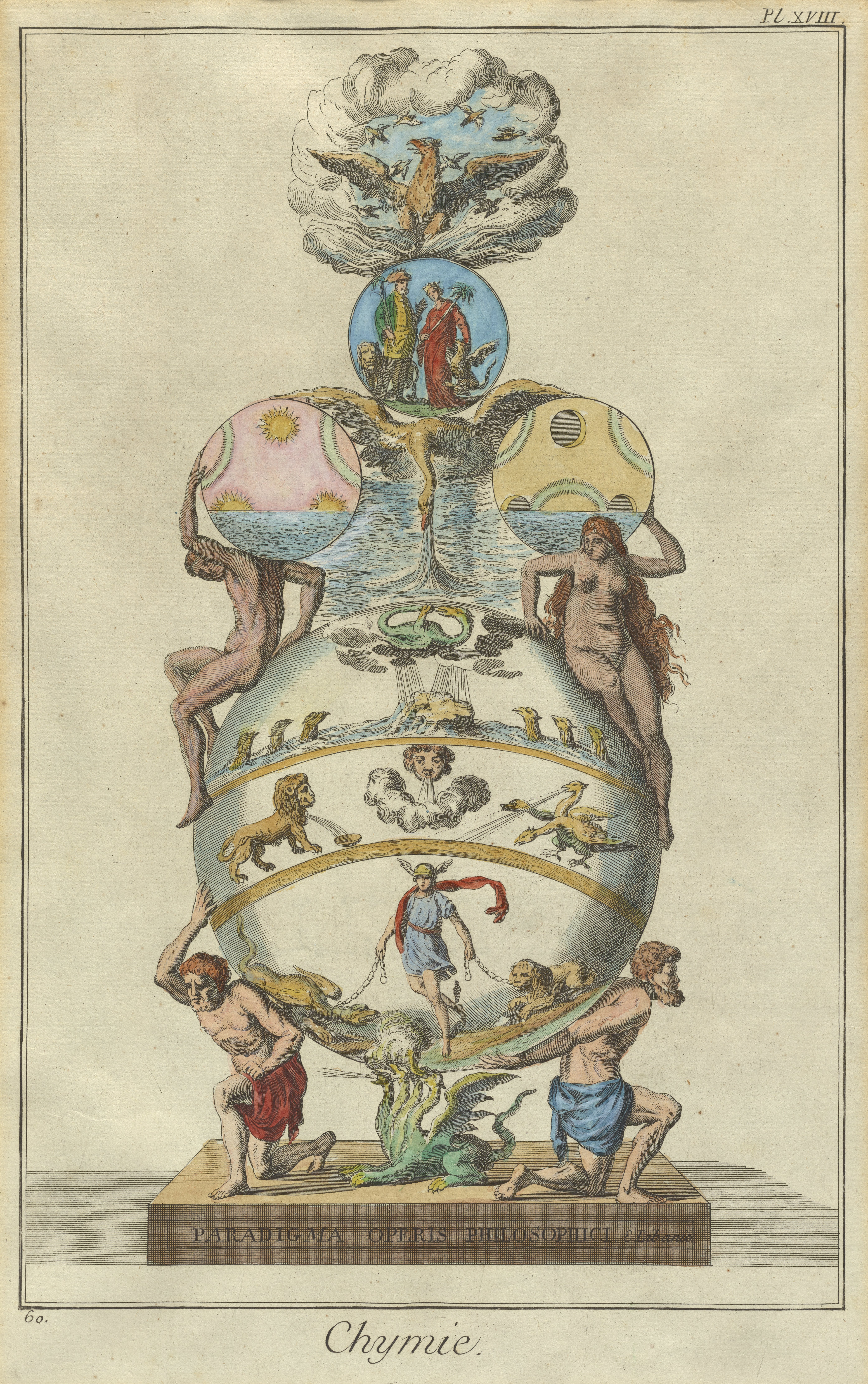 Plate XVIII: Chymie Hand-colored engraving from the "Chimie" section of Volume 3 of the Recueil de planches, sur les sciences, les arts libéraux, et les arts méchaniques, avec leur explication, which consisted of illustrated plates to accompany the volumes of text from the Encyclopédie, ou Dictionnaire raisonné des sciences, des arts et des métiers (Encyclopedia, or a Systematic Dictionary of the Sciences, Arts, and Crafts). Representing chemistry, this plate depicts an allegorical image of the world supported by two male figures and a hydra. Above the globe, another male figure holds the sun while a female figure holds the moon. At the top are a king and queen with lion and eagle, respectively, and a phoenix in the clouds above. At the base of the pedestal is the text "PARADIGMA OPERIS PHILOSOPHICI, E. Libavio," likely a reference to Andreas Libavius (1555-1616), a German physician and chemist.